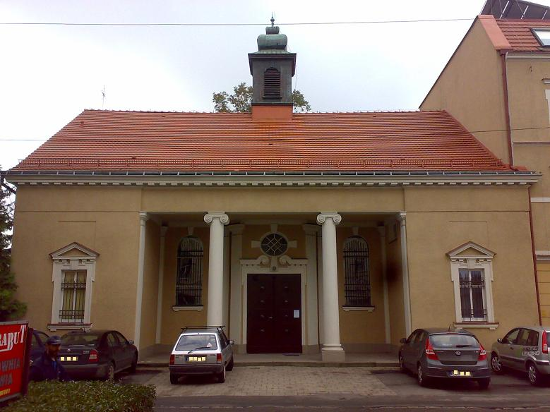 St. Lazar Social Home in Poznan.